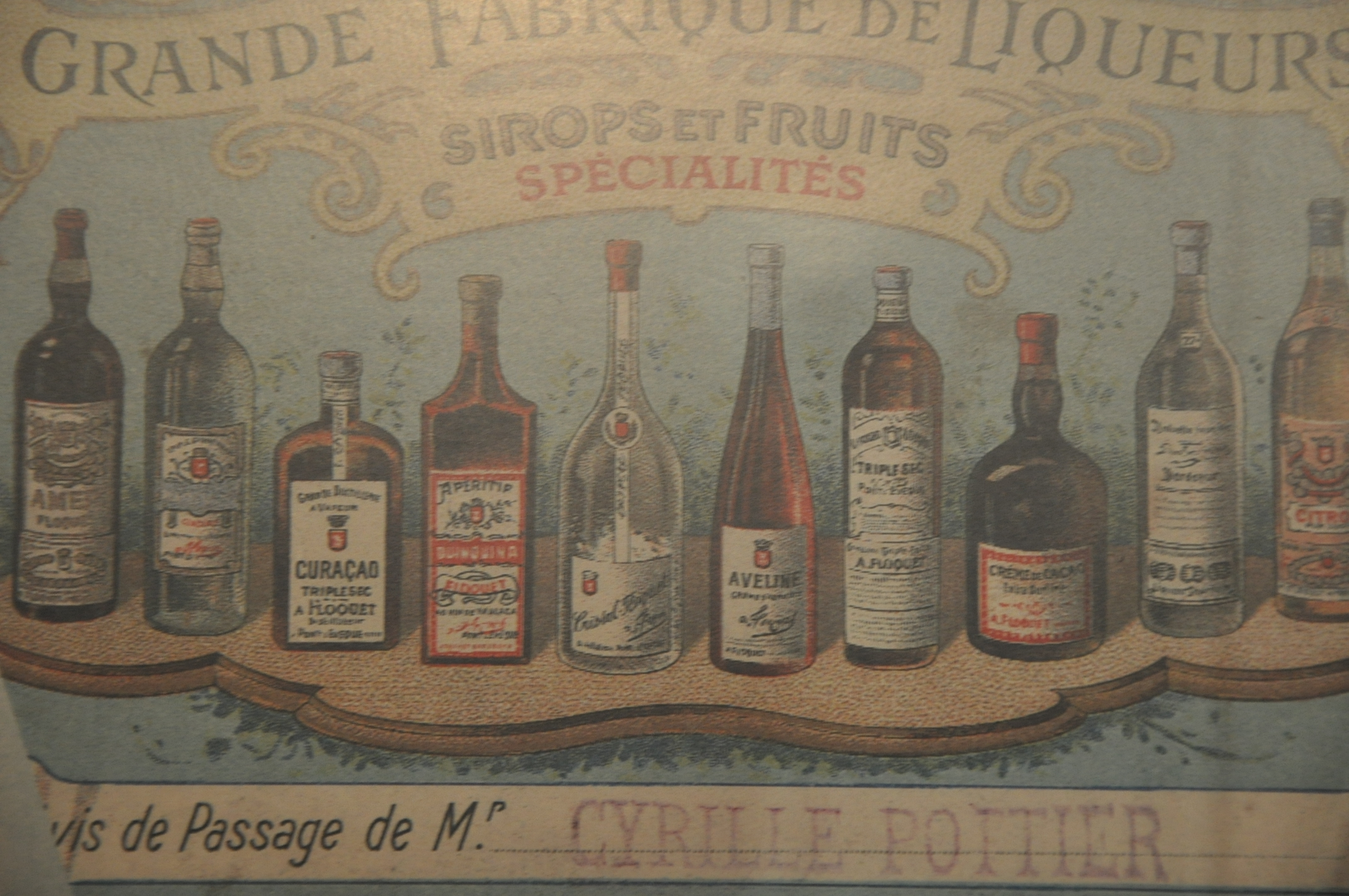 Poster in Museum of Pont-l'Eveque (France)